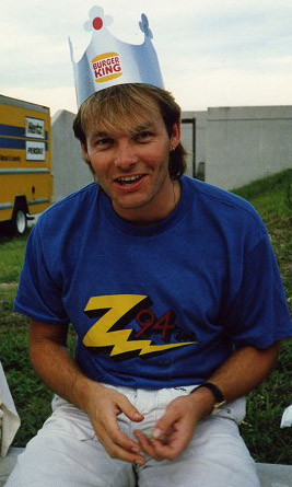 Nick Van Eede of Cutting Crew in 1987